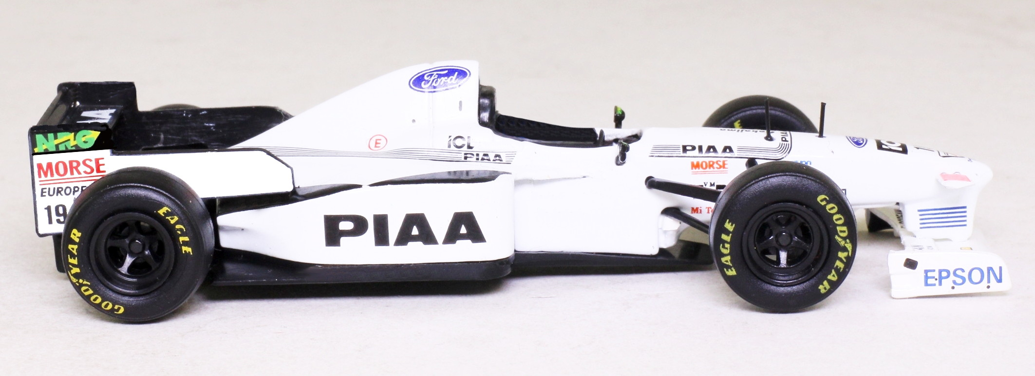 Tyrrell 025 Model Car